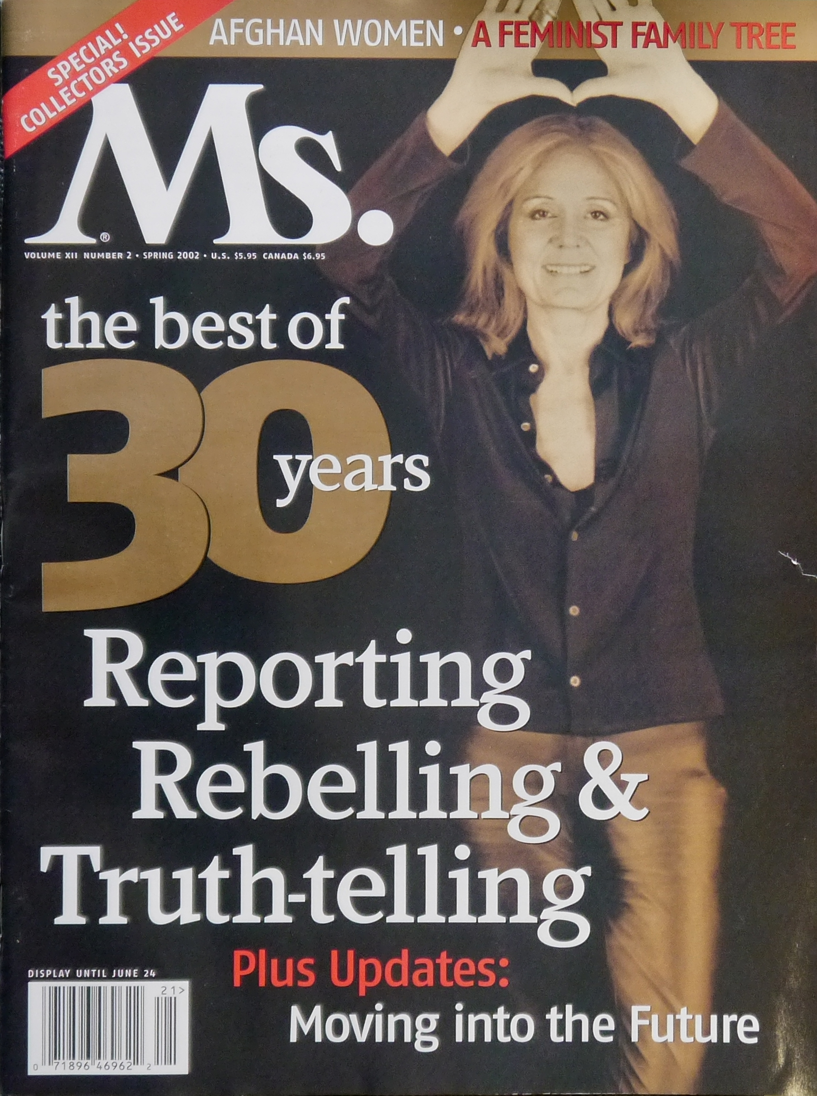 Ms. magazine, Spring 2002 issue featuring Gloria Steinem